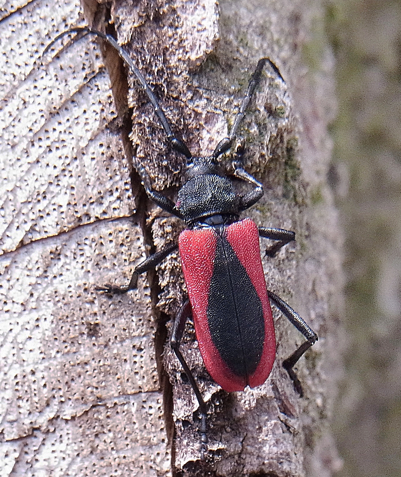 Purpuricenus kaehleri female, trying to depose eggs on bark of oak, in Hungary, Gerence-hills, at 2015-06-15